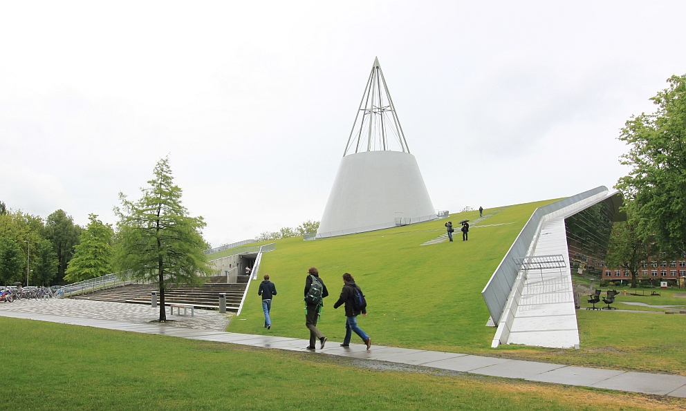 TU Delft: Library, Building No. 21, Prometheusplein 1, 2628 ZC Delft